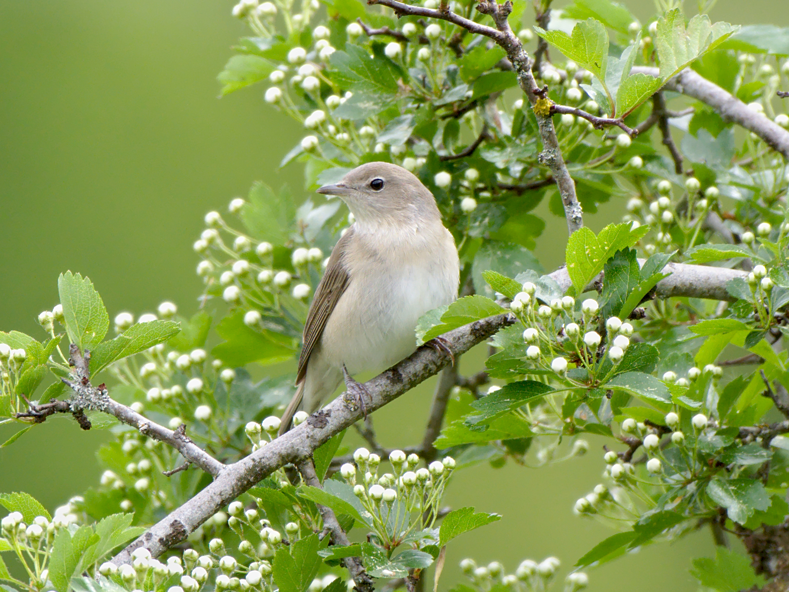 Garden Warbler singing in an almost blooming Hawthorn Crataegus monogyna at the UNESCO Biosphere Reserve Swabian Alb.